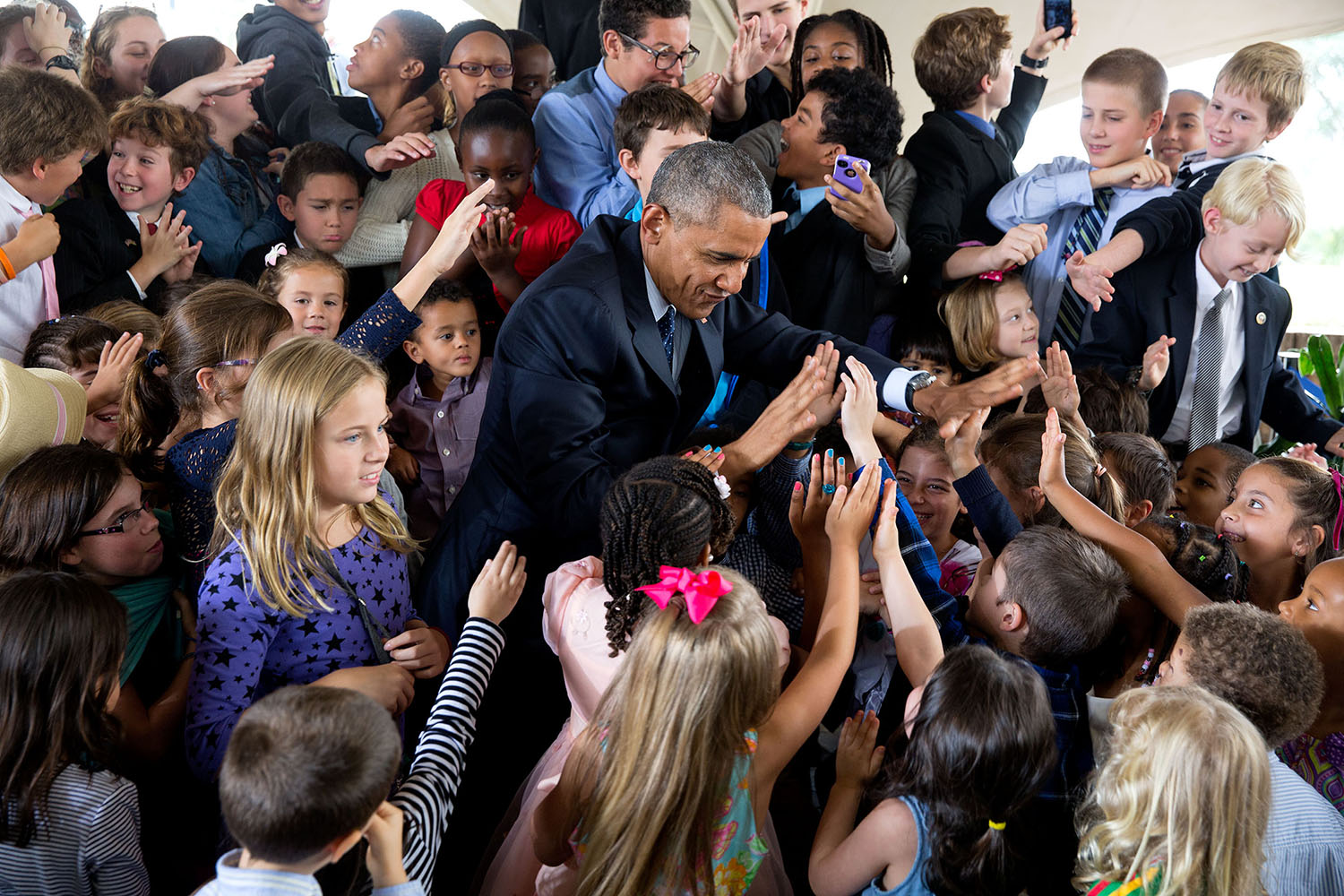 July 25, 2015 "I love looking at all the individual faces in this photograph of the President greeting children at the U.S. Embassy in Nairobi, Kenya." (Official White House Photo by Pete Souza)